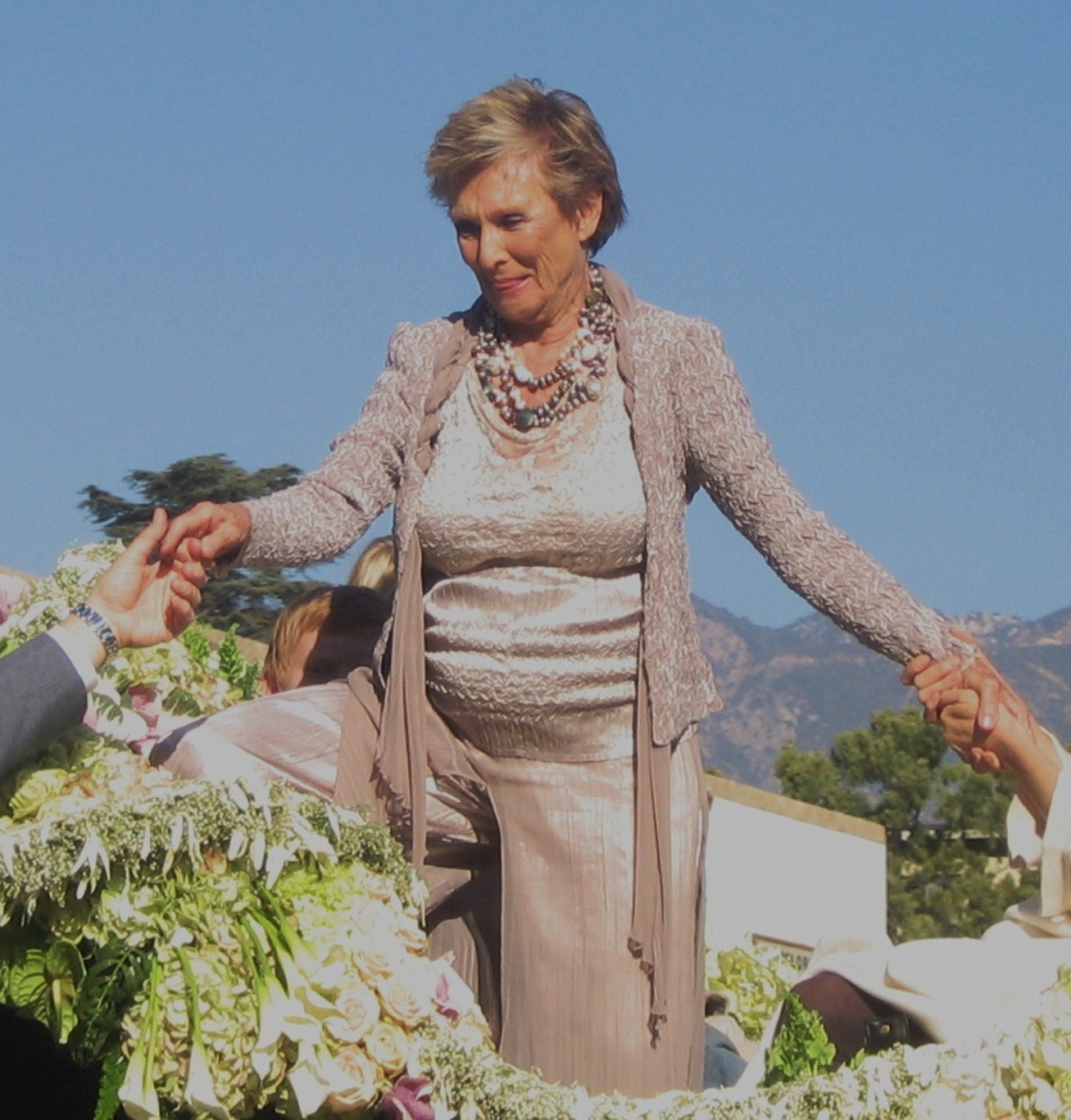 Cloris Leachman as the 2009 Tournament of Roses Parade Grand Marshal.